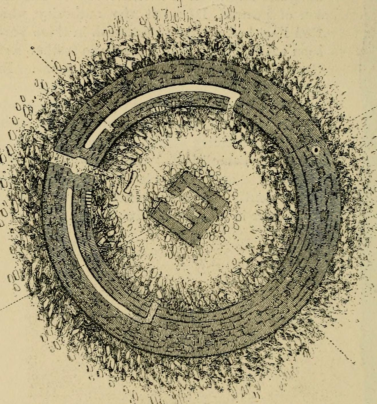 Title: Journal of the Royal Society of Antiquaries of Ireland Year: 1849 (1840s) Authors: Royal Society of Antiquaries of Ireland Royal Society of Antiquaries of Ireland. Transactions Royal Society of Antiquaries of Ireland. Proceedings and transactions Royal Society of Antiquaries of Ireland. Proceedings and papers Subjects: Ireland -- Genealogy Ireland -- History Societies, etc Ireland -- Antiquities Societies, etc Publisher: Dublin, Ireland : The Society Text Appearing Before Image: he young Earl of Ulster at theford of Belfast on 6th June, 1333, and murdered him.As he left no son, the Earldom passed with hisdaughter EHzabeth to Lionel, Duke of Clarence, 3rdson of Edward III ; but the authority which theRed Earl had sought to establish in these parts wassoon extinguished, and there is no further notice ofGreencastle for over two hundred years. In 1555the Calbhach ODomhnaill, while his father was stillruling his principality, went to Scotland and obtainedtroops from MacAihn, and returning with these anda piece of artillery called gonna cam, the crookedgmi, he demohshed the New Castle in Inis-Eoghain, and put his father under restraint.Subsequently it was conveyed to Sir ArthurChichester in his grant of Inishowen. ST. MURAS CROSIER ( 204 ) WEDNESDAY, 7th JULY 1915. AILEACH The Grianan of Aileach is a prehistoric enclosure built of drystone on a hill now called Greenan Mountam, that rises to a heightof 808 ft. some 5 miles north-west by north of the Citj^ of London- Text Appearing After Image: Griaxan of Aileach(Plan from Ordnance Memoir of Londonderry, 1837) derry, and commands wide views down Lough Swilly and LoughFoyle. For a Summer Palace, which is one of the meanings of theword grianan, a fairer prospect could not readily be found. Plate XIX) (To face page 204